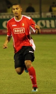 William Vainqueur